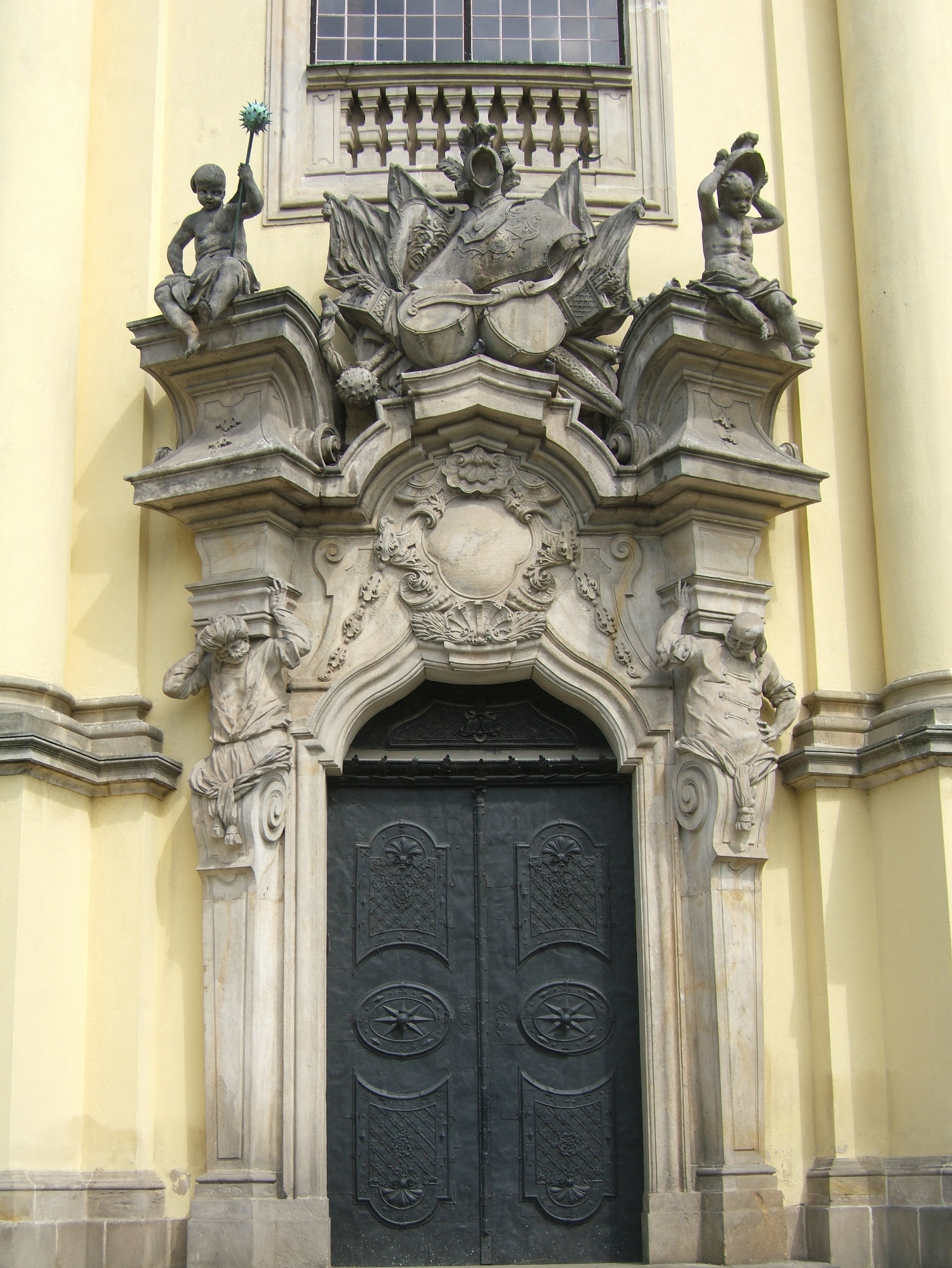 The baroque main portal of the Saint Jadwiga church in Legnickie Pole. The church was built between 1727 and 1731 by Kilian Ignaz Dientzenhofer. The portal is decorated with flags, drums, and armour and symbolizes the founding of the monastery on the battlefield, where polish and german knights have fought against the mongoles.